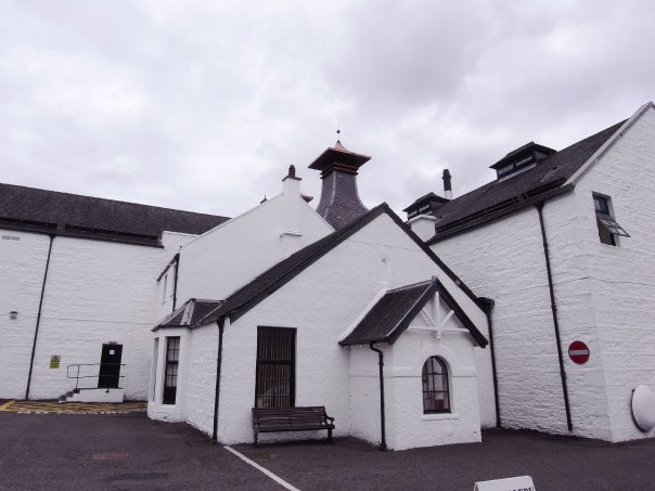 Dalwhinnie Distillery